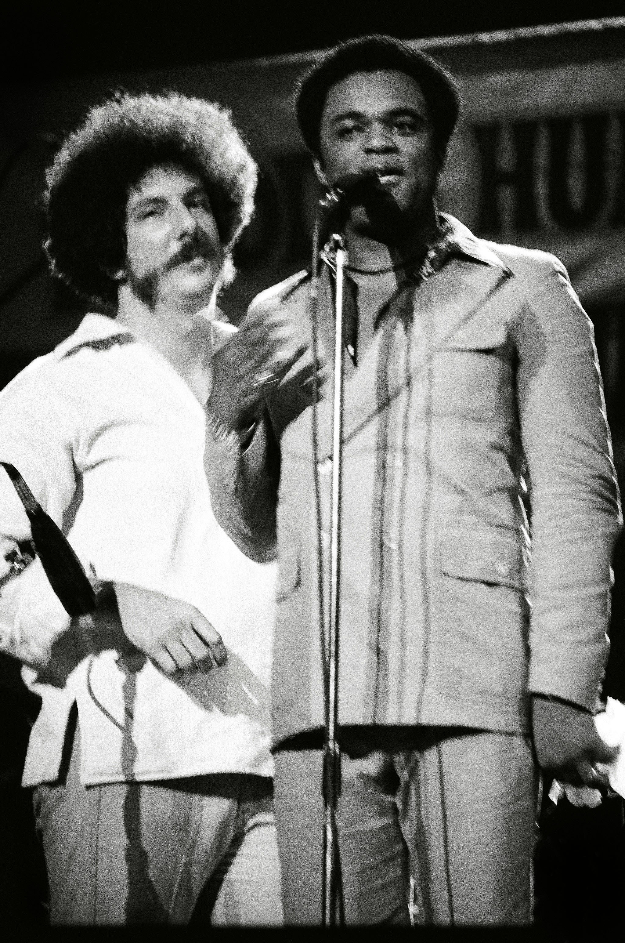 Harry Abraham and Freddie Hubbard, c. 1978